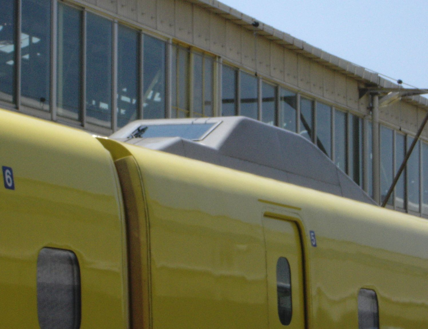 Observation dome of Shinkansen 923 series inspection train